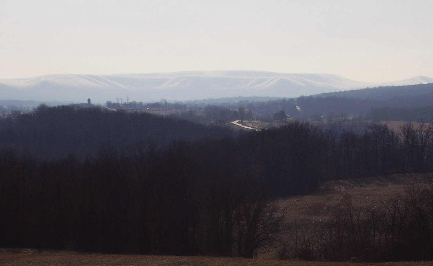 Martin Hill blanketed in snow giving it a ghostly appearance.